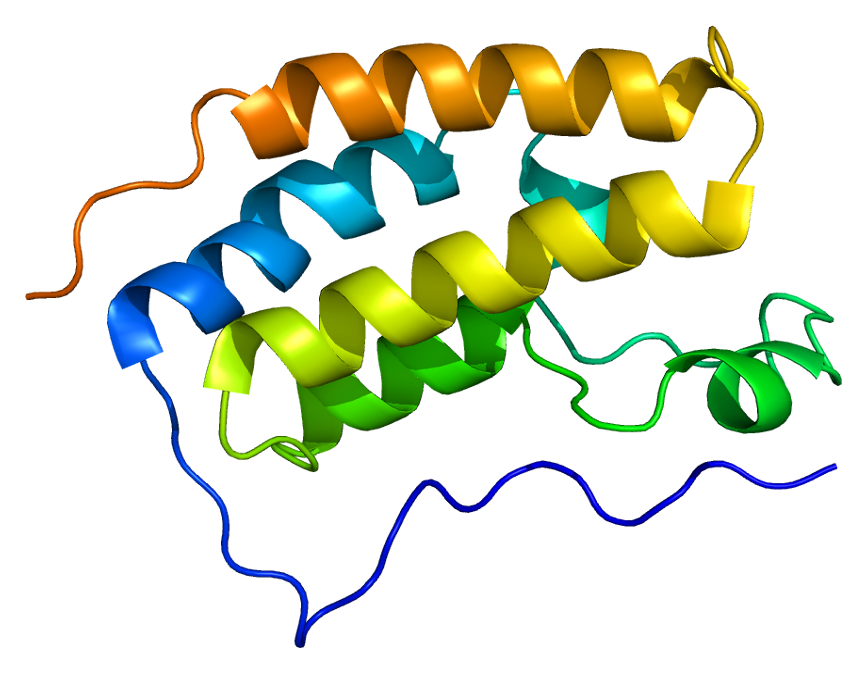 Structure of the Bromodomain 1 of the human BRD4 protein. Based on PyMOL rendering of PDB 2oss.